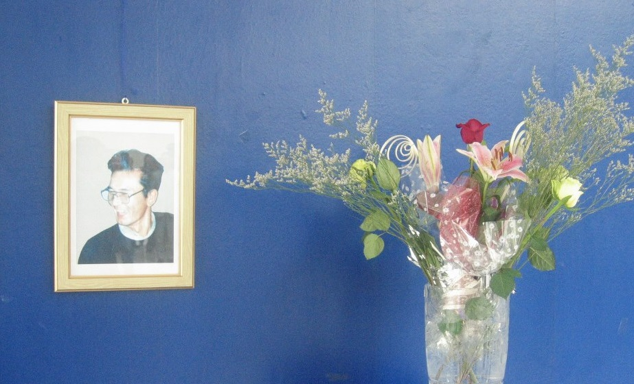 An artist Bold Jamsranjav's exhibition in 2004